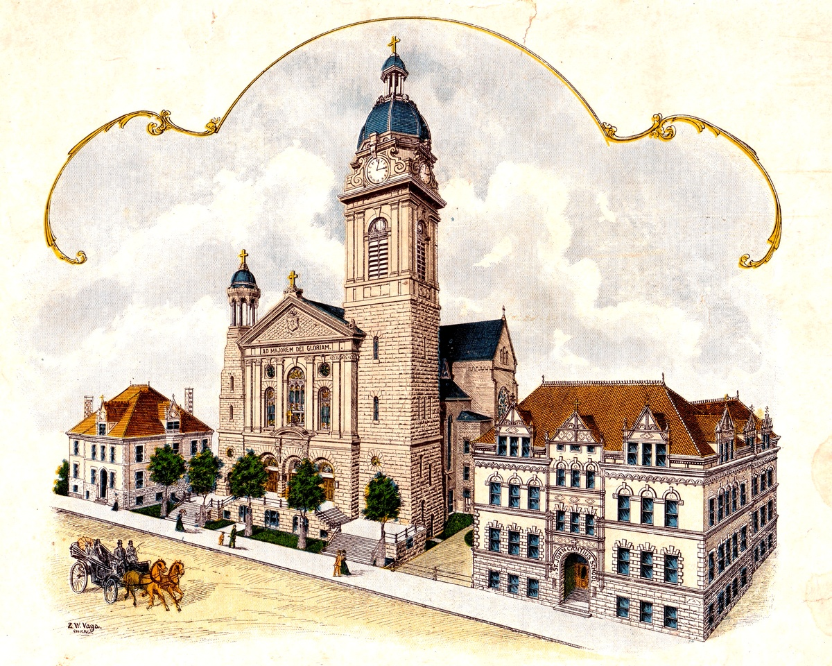 A 1909 Postcard of St. John Cantius Church. Designed by Adolphus Druiding and completed in 1898, St. John Cantius Church took five years to build and is one of the best examples of sacred architecture in the city. The unique baroque interior has remained intact for more than a century and is known for both its opulence and grand scale—reminiscent of the sumptuous art and architecture of 18th century Krakow. The imposing 130 ft. tower is readily seen from the nearby Kennedy Expressway. In 2013, St. John’s completed an ambitious restoration, returning the lavish interior to its original splendor. Of all the “Polish cathedrals” in Chicago, St. John’s stands closest to downtown. Located in the heart of Chicago, one mile directly west of the famous Water tower on Chicago Avenue, St. John Cantius Church is easily accessible by car, bus, or subway.